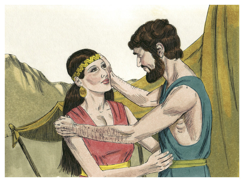 Biblical illustration of Book of Genesis Chapter 24